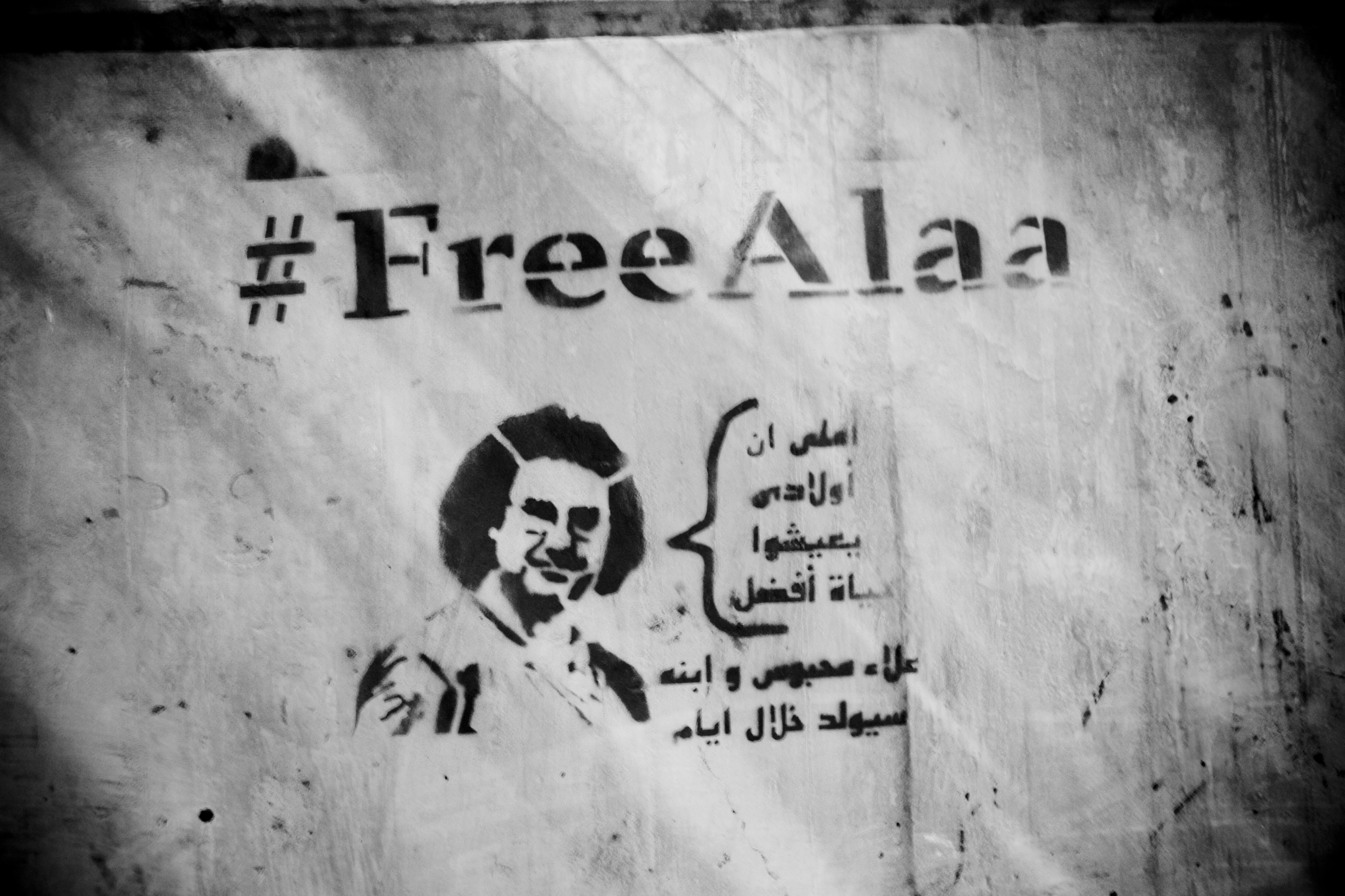 Graffiti in Mohamed Mahmoud Street.